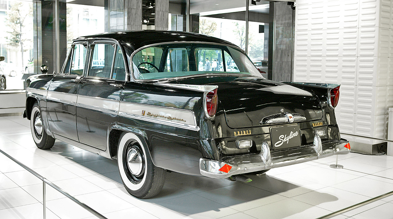 Prince Skyline ALSI-1